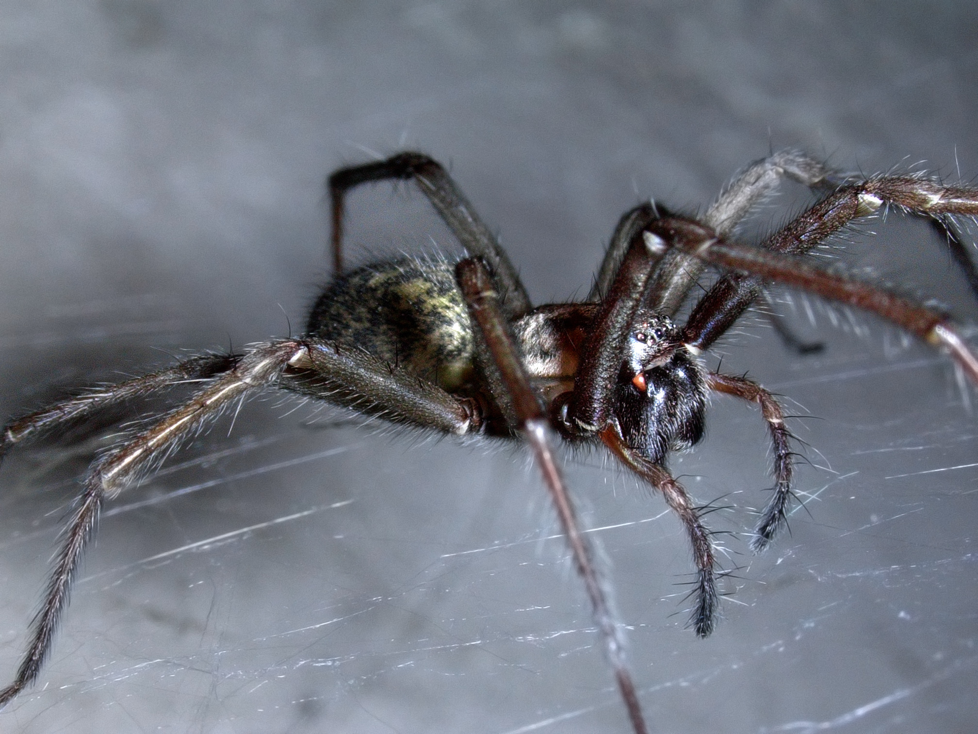 a spider i found in my basement (europe, germany) - Tegenaria